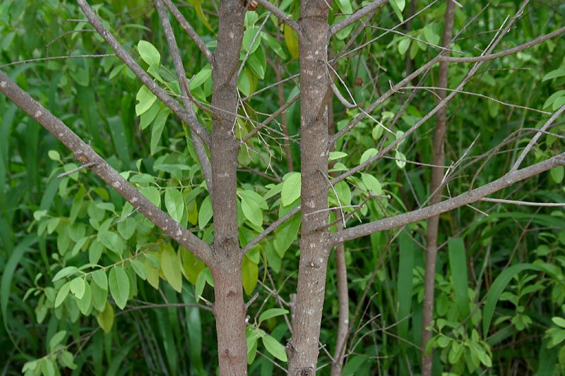 White or East Indian Sandalwood or Chandan Santalum album in Hyderabad , India.